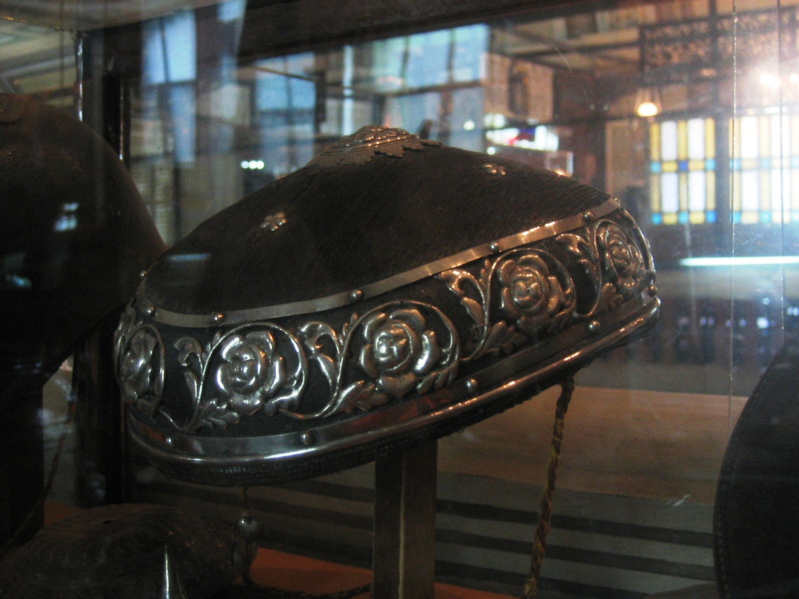 A silver enlaid salakot dating back the 19th century. Photo of the exhibit in Villa Escudero Museum in San Pablo, Laguna, Philippines taken by Sulbud. Sulbud: Sulbud 06:35, 6 July 2007 (UTC)